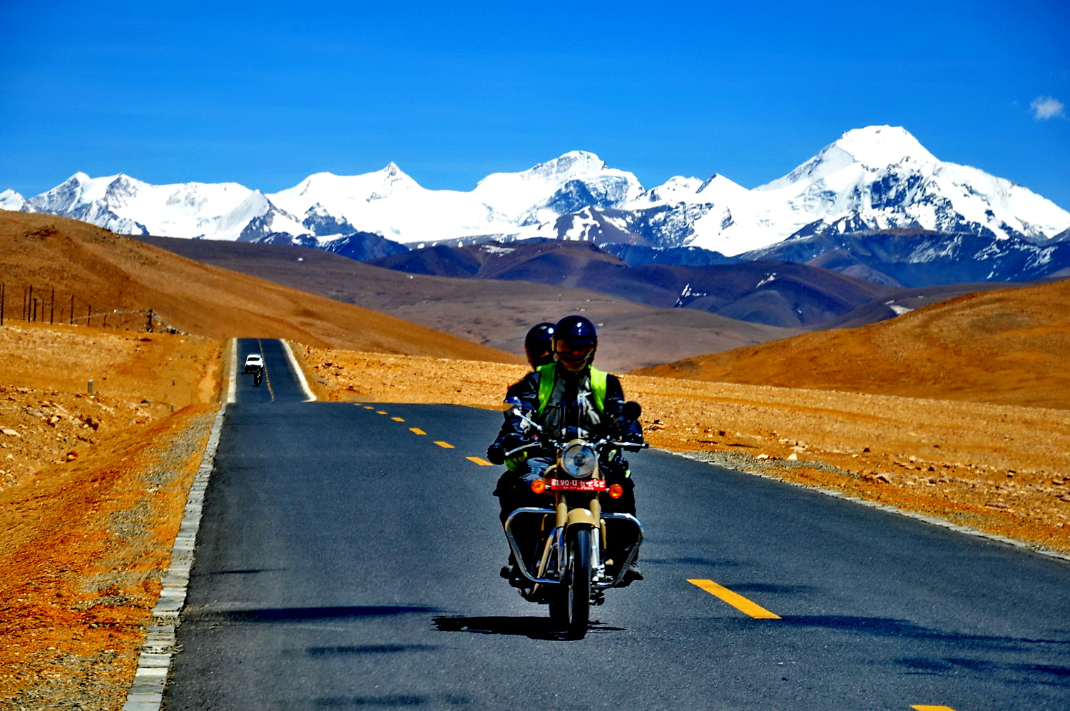 Friendship Highway (G318) after Lhakpa La Pass